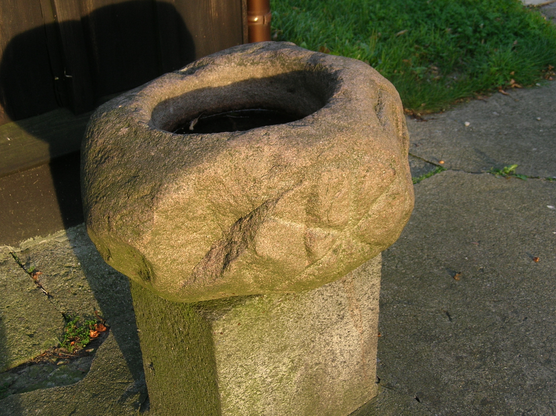 Baptismal font; church at Liszkowo